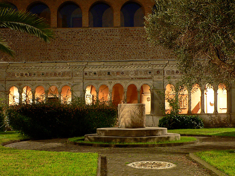 Cloister of Basilica of St. John Lateran, cathedral of the Bishop of Rome, Italy.